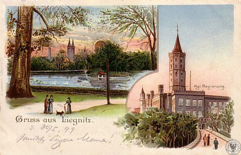 View of the castle in Legnica, 19th century